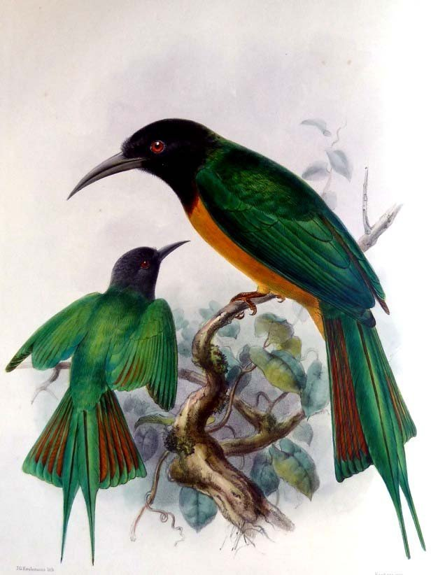 Merops breweri